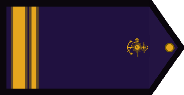 Rank insignia of a Petty Officer of the Argentine Navy.